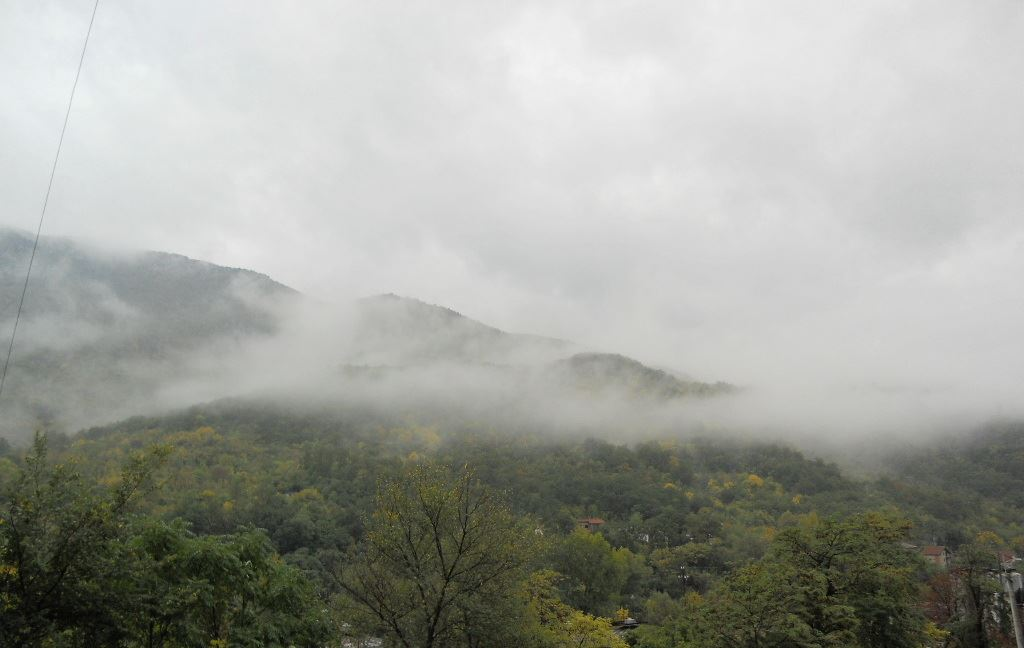 Sićevo Gorge, 2013-11-16